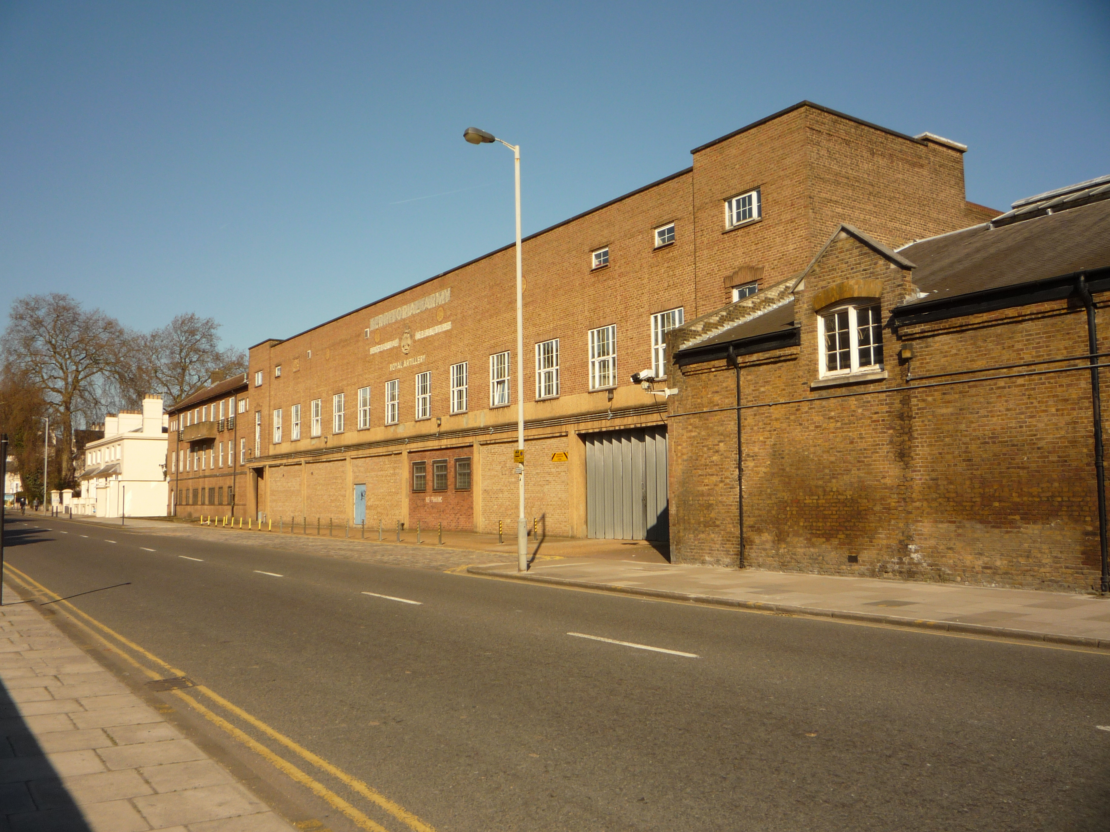 1930s drill hall of the 33rd Searchlight Regiment (formerly 19th London Regiment) in Albany Street, London